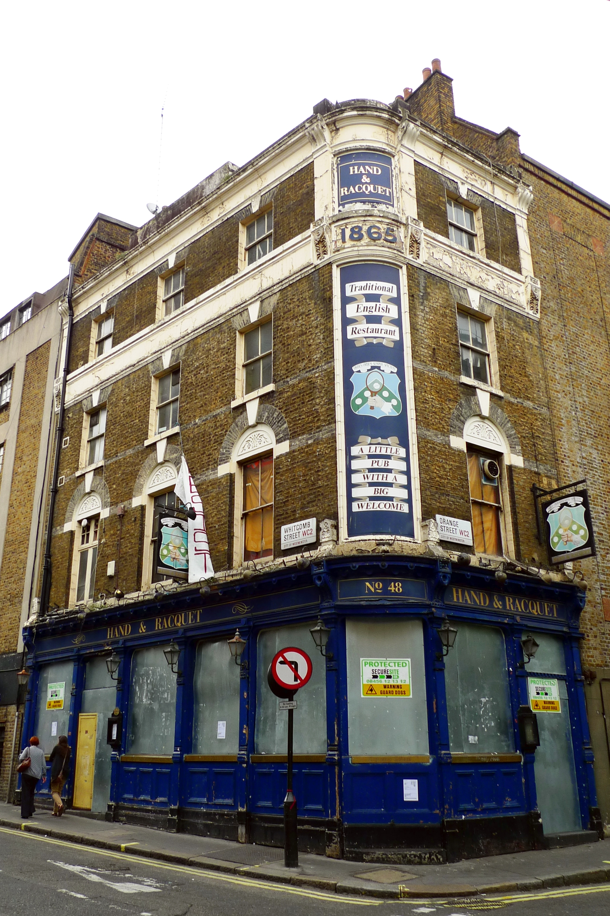 A pub behind the National Gallery, near Leicester Square as well. Due to be demolished, apparently. (Close-up prior to boarding.) Address: 48 Whitcomb Street. Former Name(s): The Hand and Tennis. Owner: Punch Taverns [Spirit Group] (former); Watney Combe Reid (former). Links: Fancyapint Beer in the Evening Dead Pubs (history)